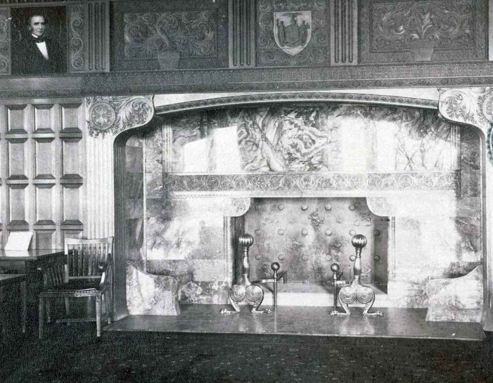 Collection: A. D. White Architectural Photographs, Cornell University Library Accession Number: 15/5/3090.00460 Title: New York State Capitol, New York Court of Appeals Room Architect: Henry Hobson Richardson (1838-1886) Building Date: 1883-1884. The courtroom was disassembled and relocated to the New York Court of Appeals Building in 1916. Location: North and Central America: United States; New York, Albany Materials: albumen print Provenance: Transfer from the College of Architecture, Art and Planning Persistent URI: There are no known U.S. copyright restrictions on this image. The digital file is owned by the Cornell University Library which is making it freely available with the request that, when possible, the Library be credited as its source. We had some help with the geocoding from Web Services by Yahoo!